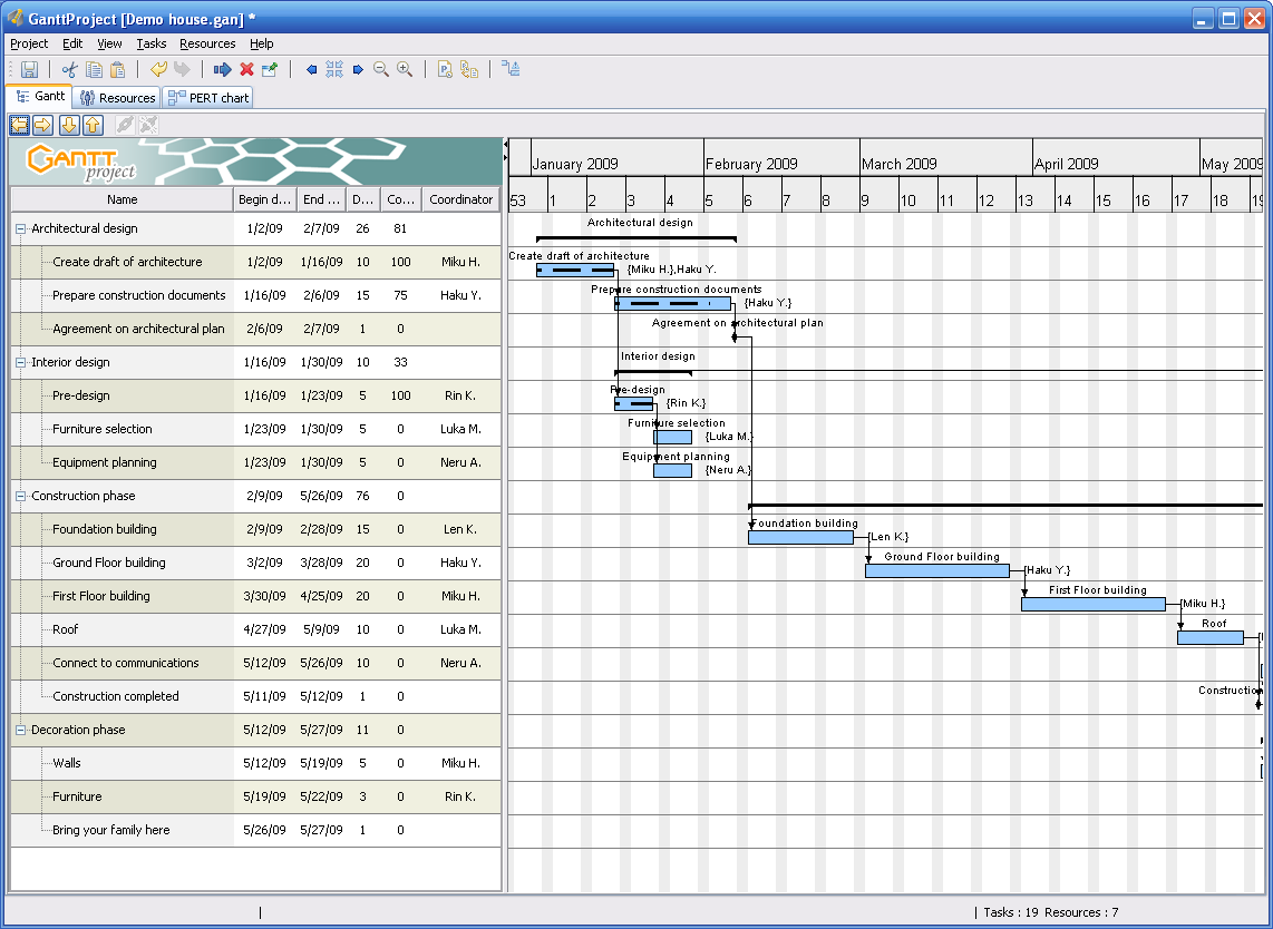 Screenshot of a Gantt chart view of Word search game sample project opened in GanttProject 2.0.10 running on Windows7